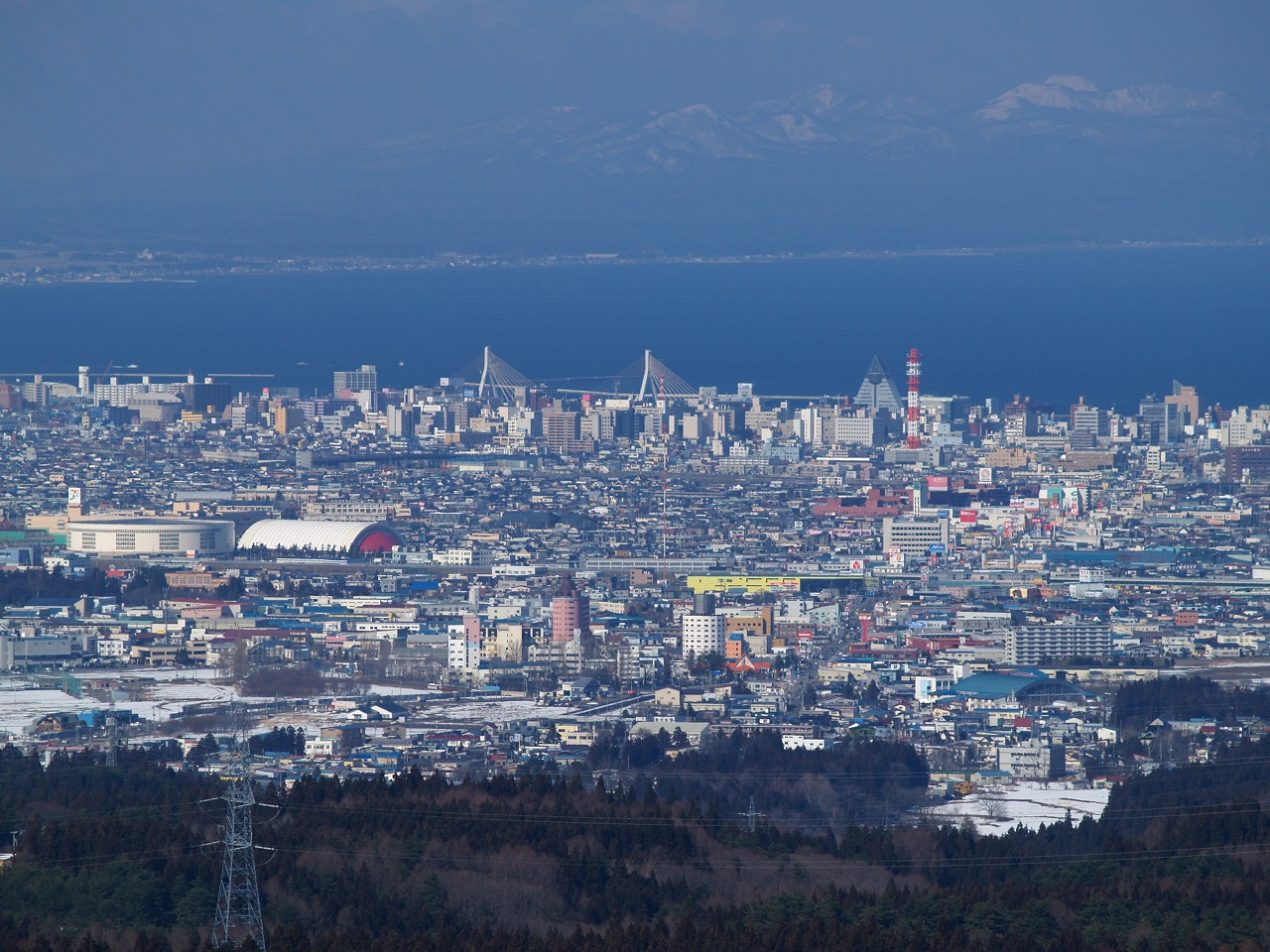 Aomori city from Hakkoda